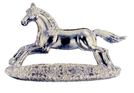 Digitised photo of PWO Badge from personal collection